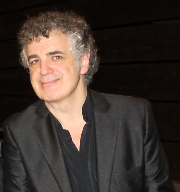 Jakko Jakszyk in 2014.